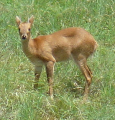 Four-horned Antelope (Tetracerus quadricornis)